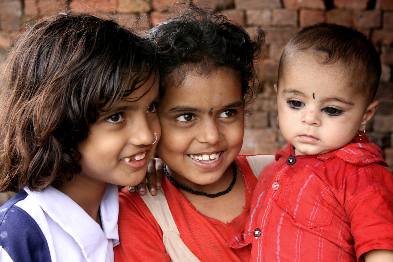 Happiness Bedse Caves P@P Shoot at Bedse caves and surroundings